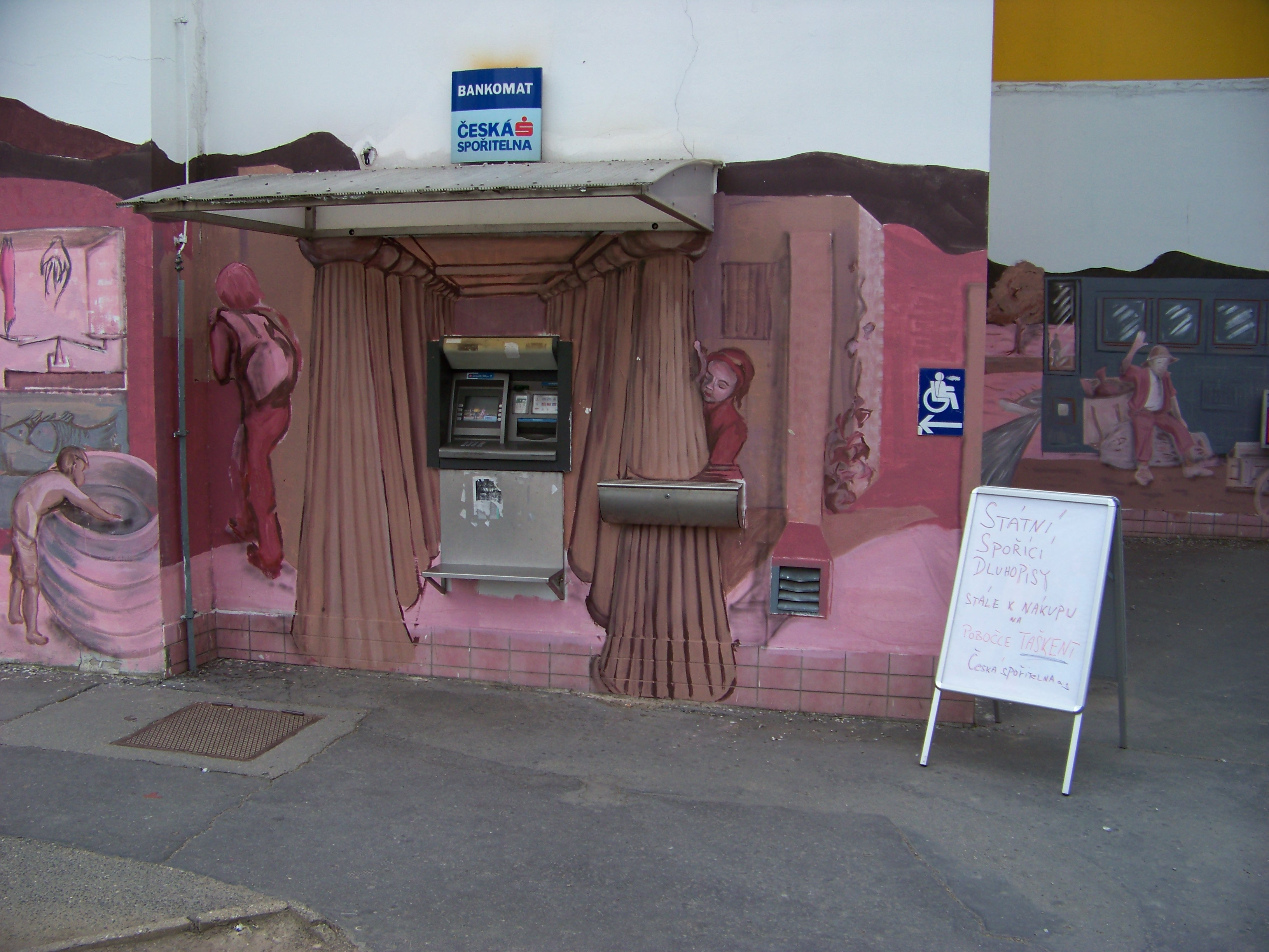 Prague-Hostivař, the Czech Republic. Hornoměcholupská Housing Estate, Plk. Mráze street, Taškent shopping centre, outside murals. ATM of Česká spořitelna.